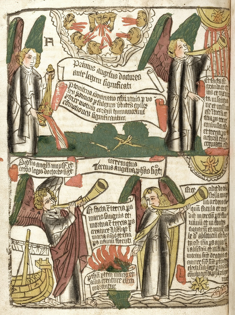 Page from the Apocalypse, a block book printed in Europe between 1450 & 1500. The image come from a late 15th century compilation blockbook [Cod Pal. Germ 34] of which the 'Apokalypse' (4th ed.) forms one section. The printed text is in latin but handwritten german translation sheets were inserted between the blockbook pages. The book is hosted by the University of Heidelberg.